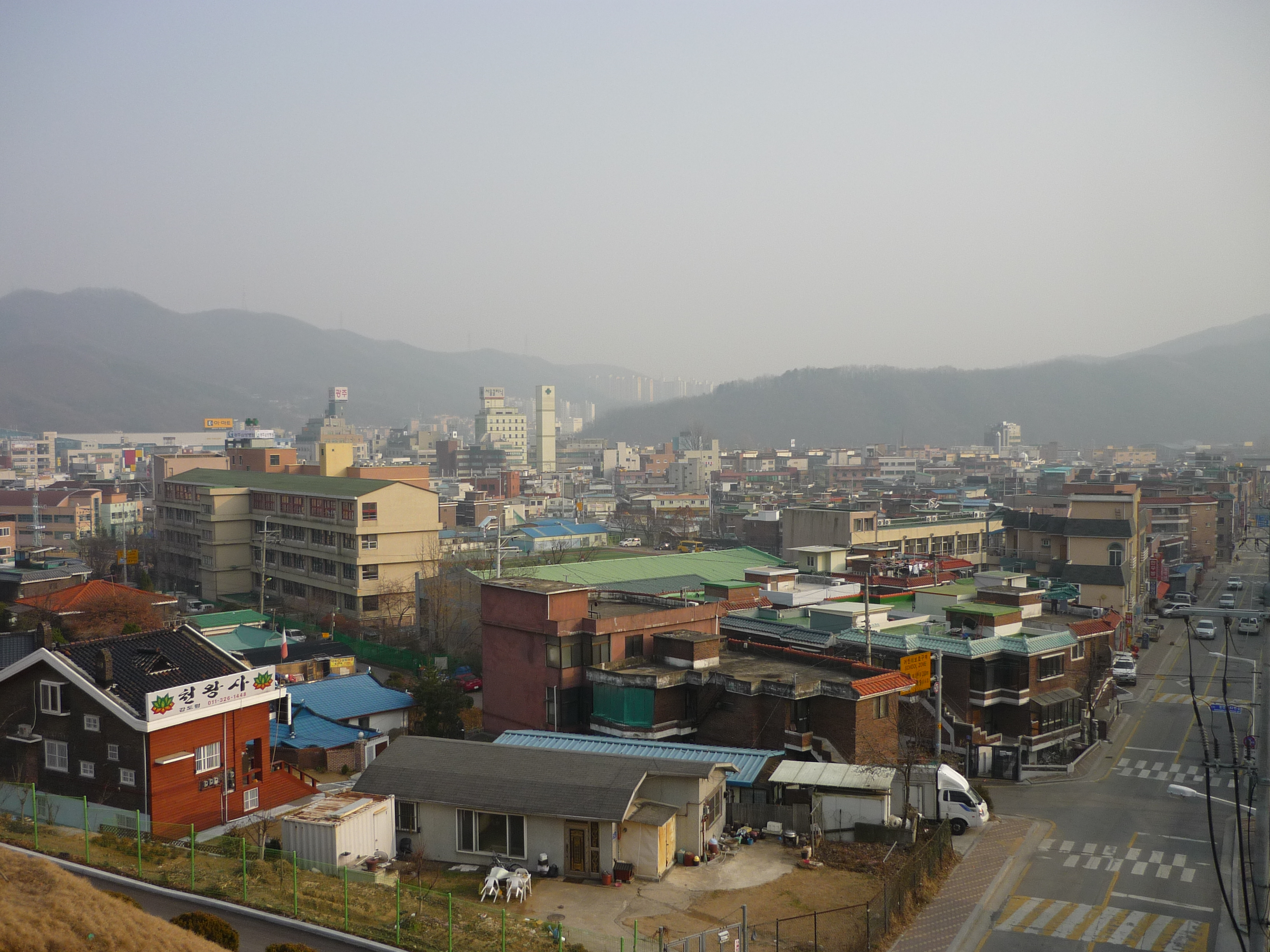 The cityscape of Gwangju, Gyeonggi, South Korea.